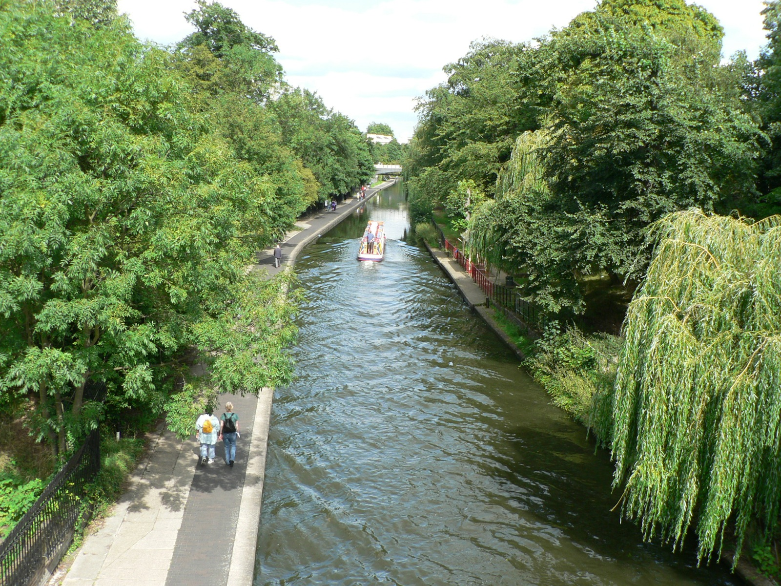 Regent's Canal Near London Zoo